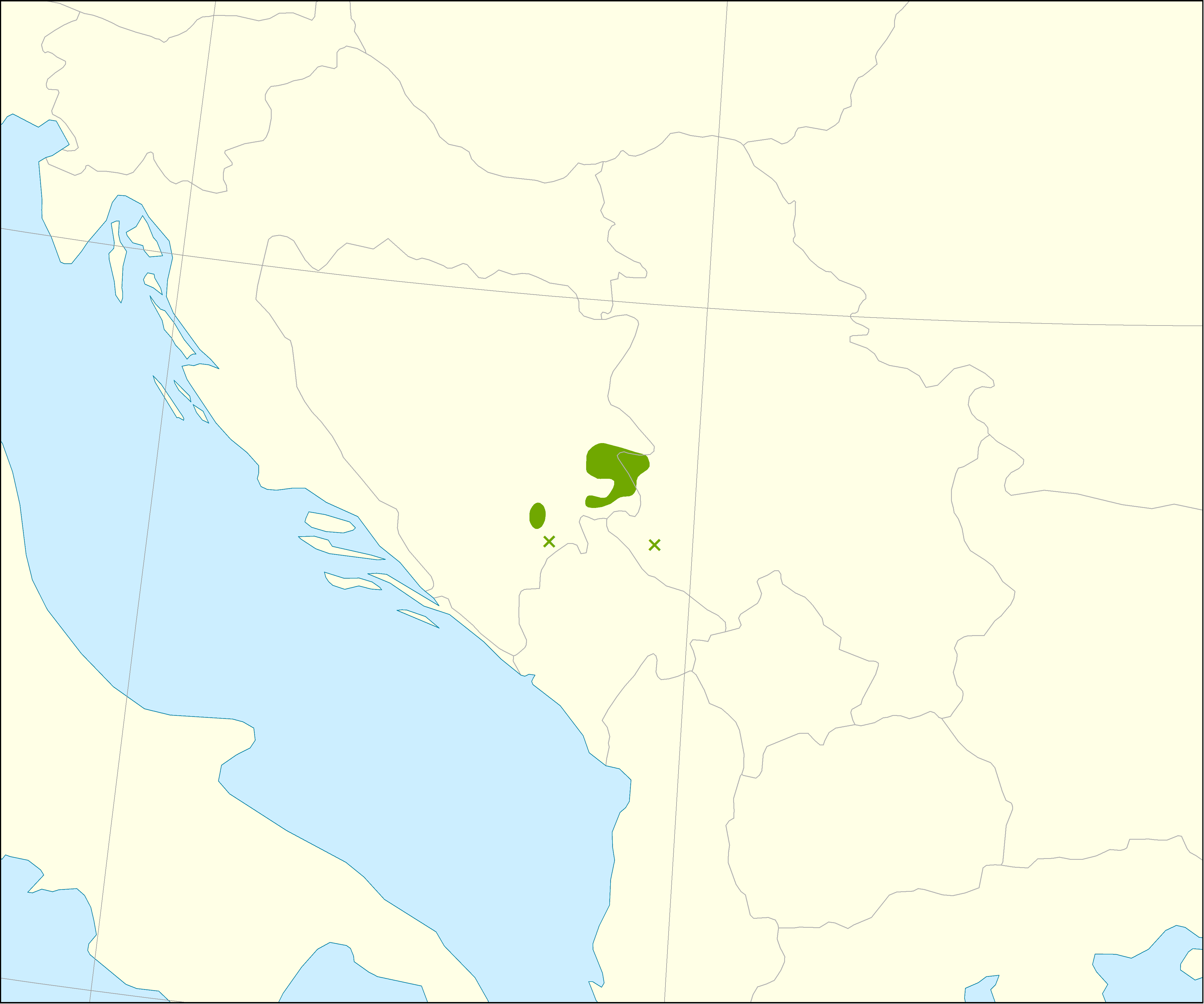 Natural range map of Picea omorika